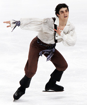 Javier Fernandez at the 2010 World Championships.